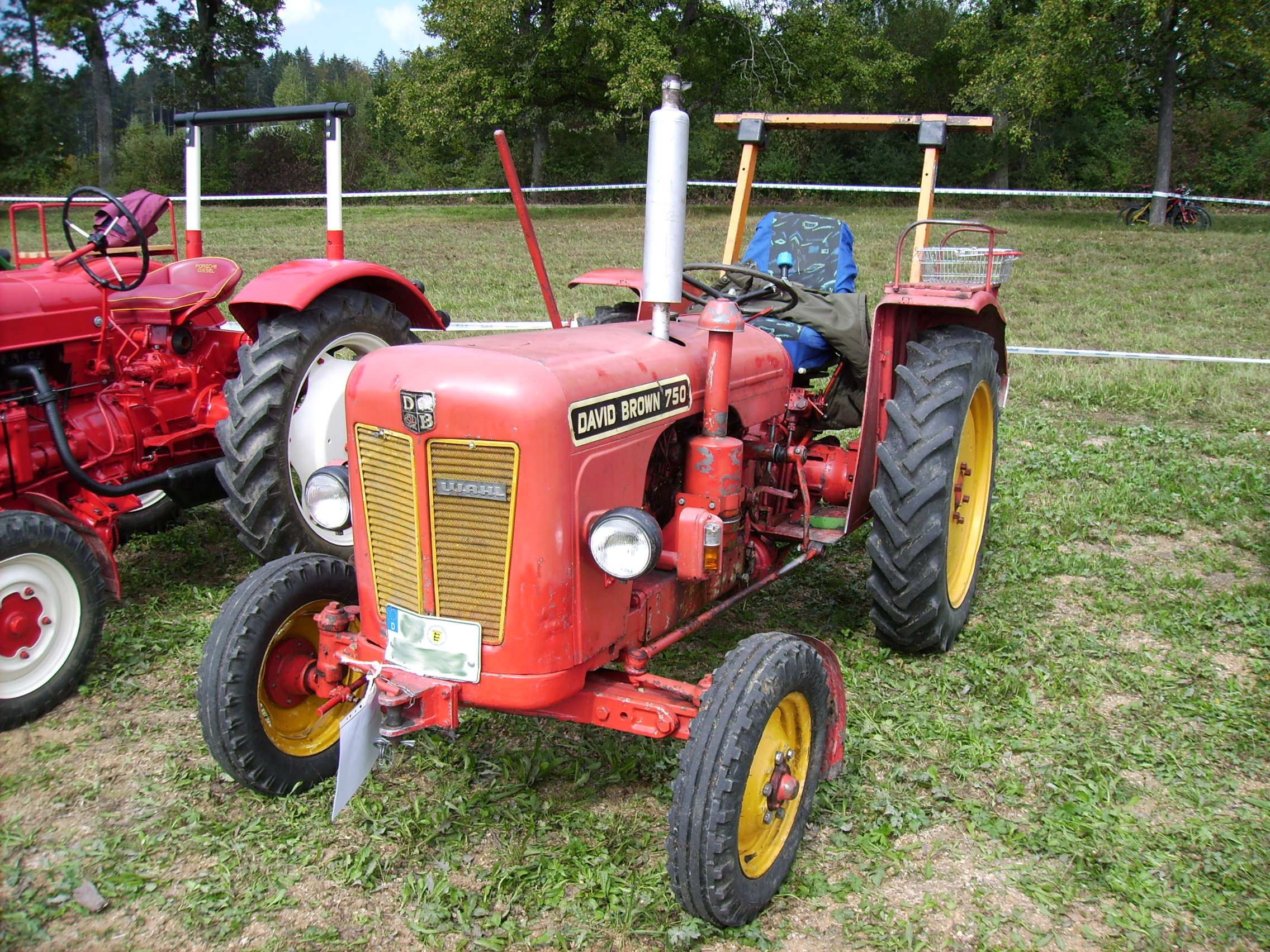 David Brown 750, 18 HP